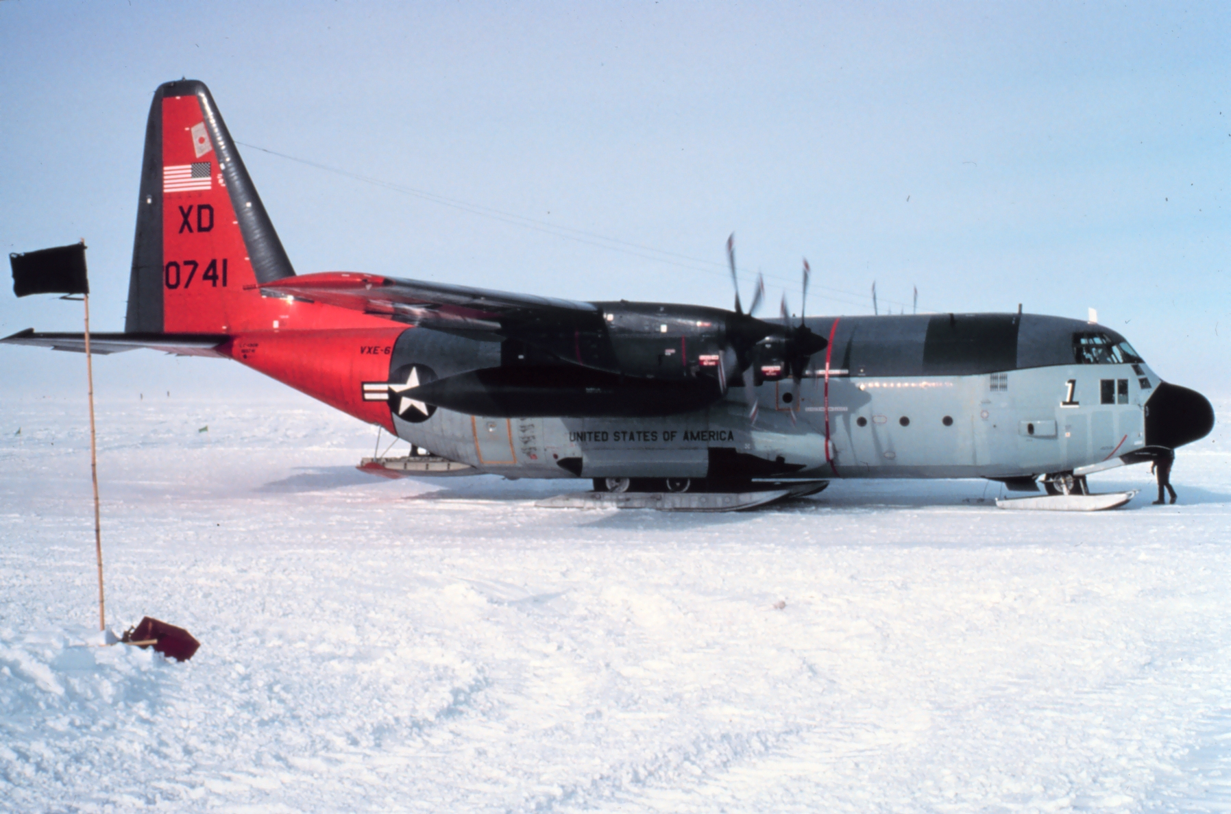 Ski-equipped C-130 on the ground at South Pole Station. Antarctica.